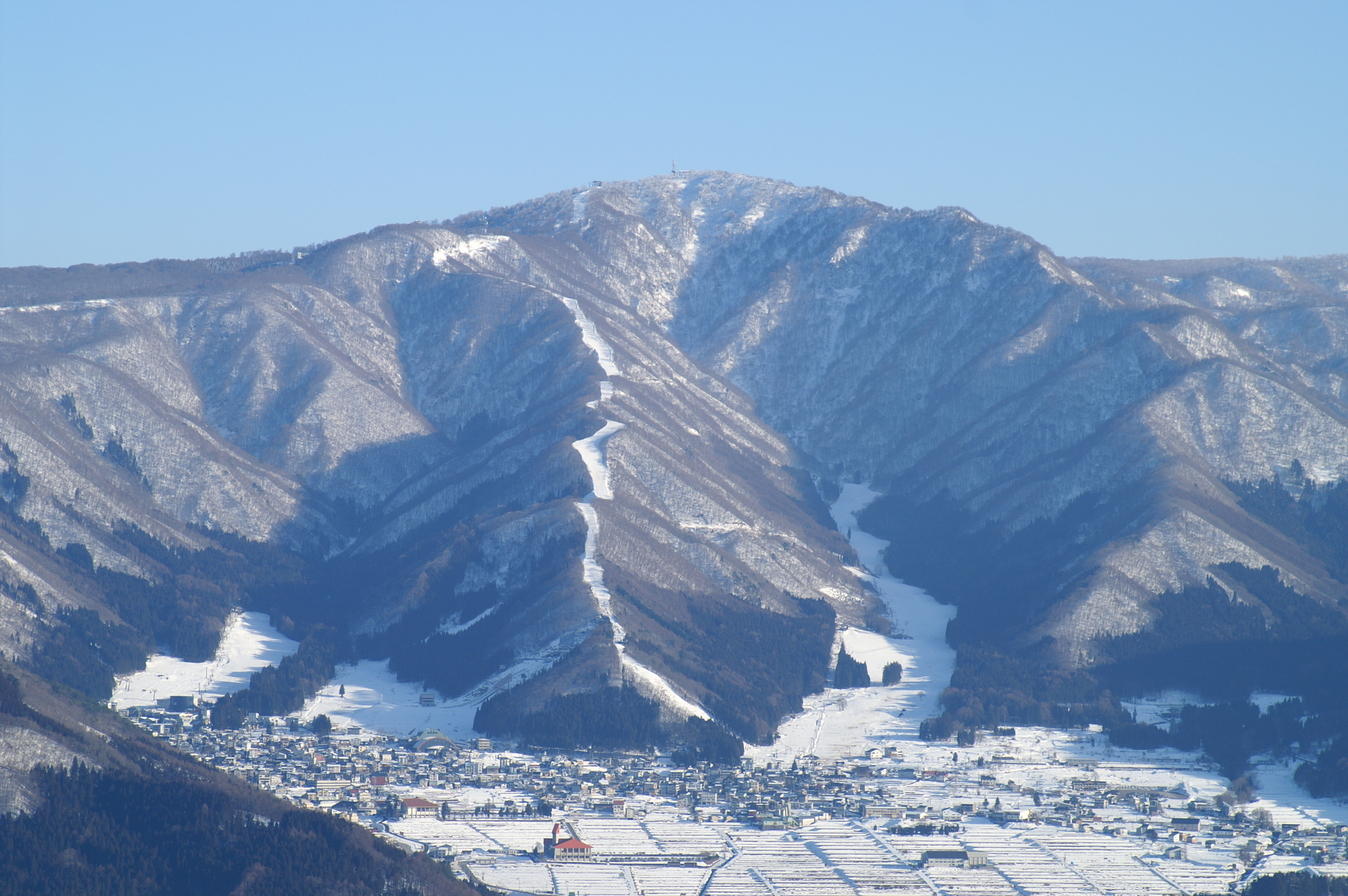 View of Mount Kenashi and Nozawa Onsen seen from the northwest in Nagano Prefecture, Japan.